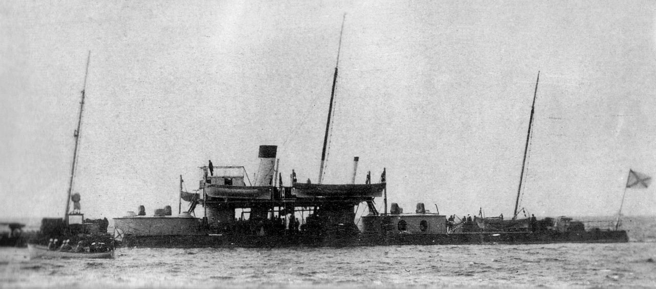 Twin turret armoured boat Rusalka.